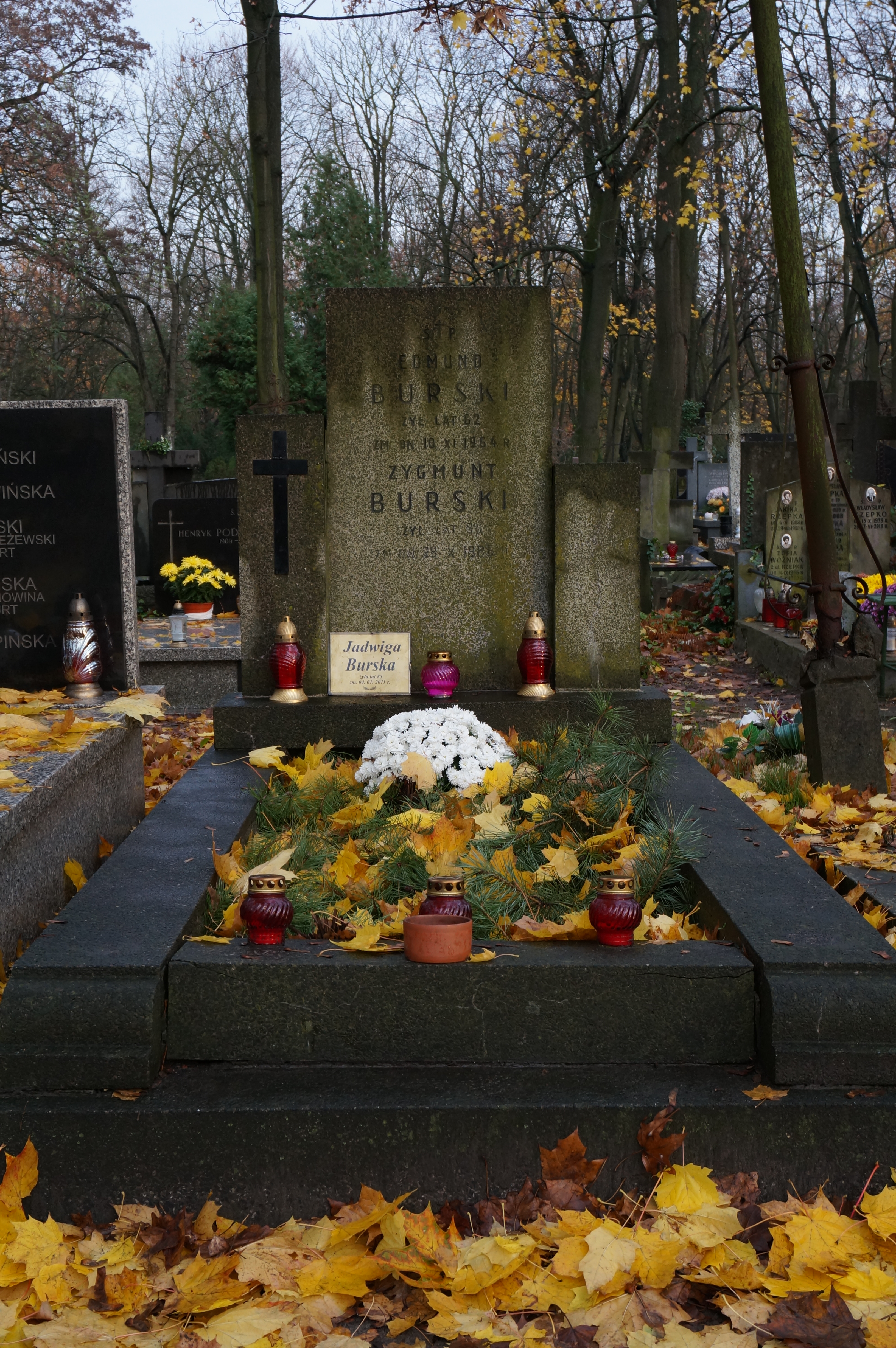 The grave of Jadwiga Burska at the Powązki Cemetery (section 297, row 6, grave 3)